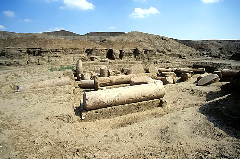 Columns of the East Temple, San el-Hagar (Tanis), Egypt